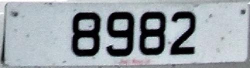 Guernsey license plate, seen in Bregenz, Austria